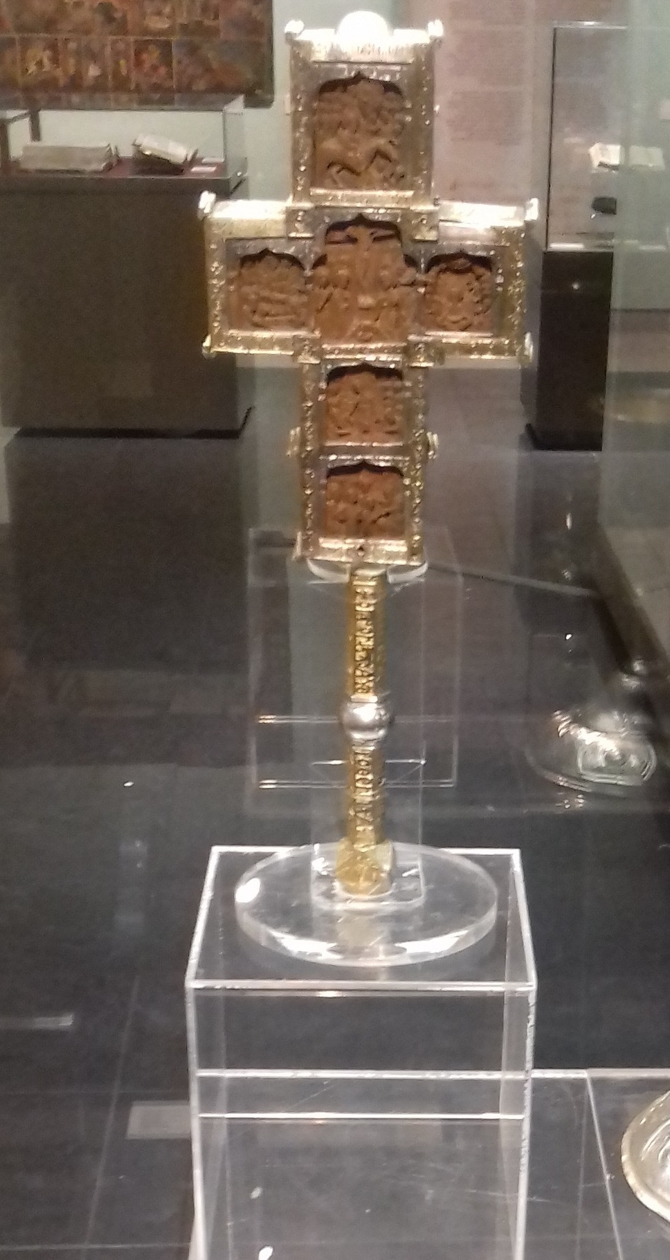 Cross from Holy Mary Iliokali 1617-1618. Miniature woodcarving, silver-gilt plating. 1617/1618. National Historical Museum, Bulgaria